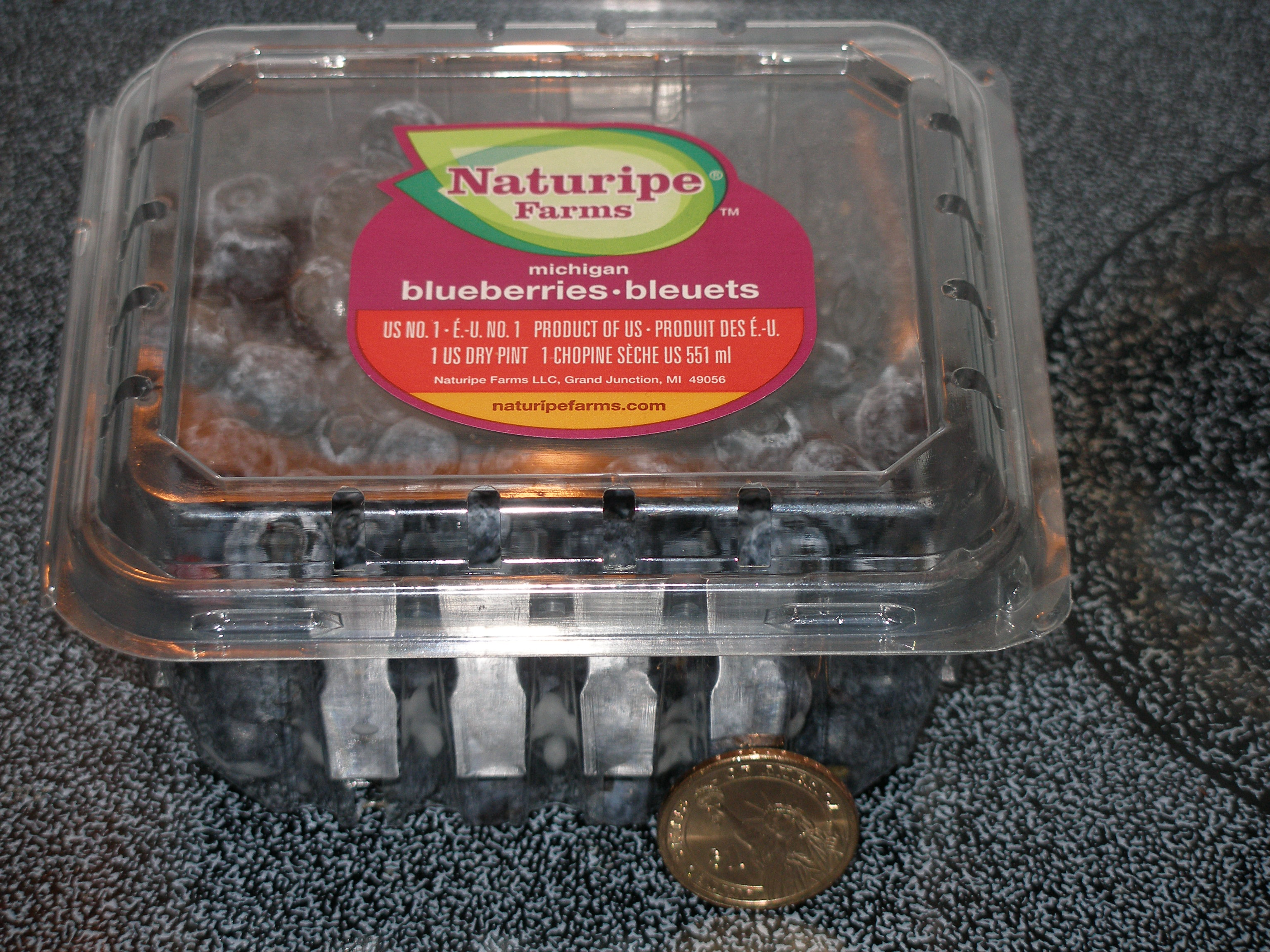 One U.S. dry pint of blueberries shown next to a U.S. golden dollar coin (on end). The label is in both English and French.